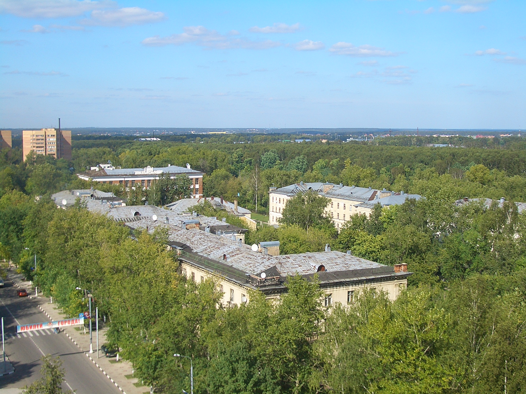 The four П-shaped buildings - are the oldest residence halls (Nos. 1-4) on the MIPT campus. Pervomayskaya street is to the left of them, and the city of Dolgoprudny is in the background. Viewed from the Applied Mathematics Building (the "Purple Building").